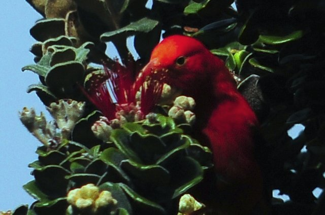 'i'iwi sipping nector from a red lehua flower at the ohia tree a few feet from the bird lookout point on the Hosmer Grove trail.